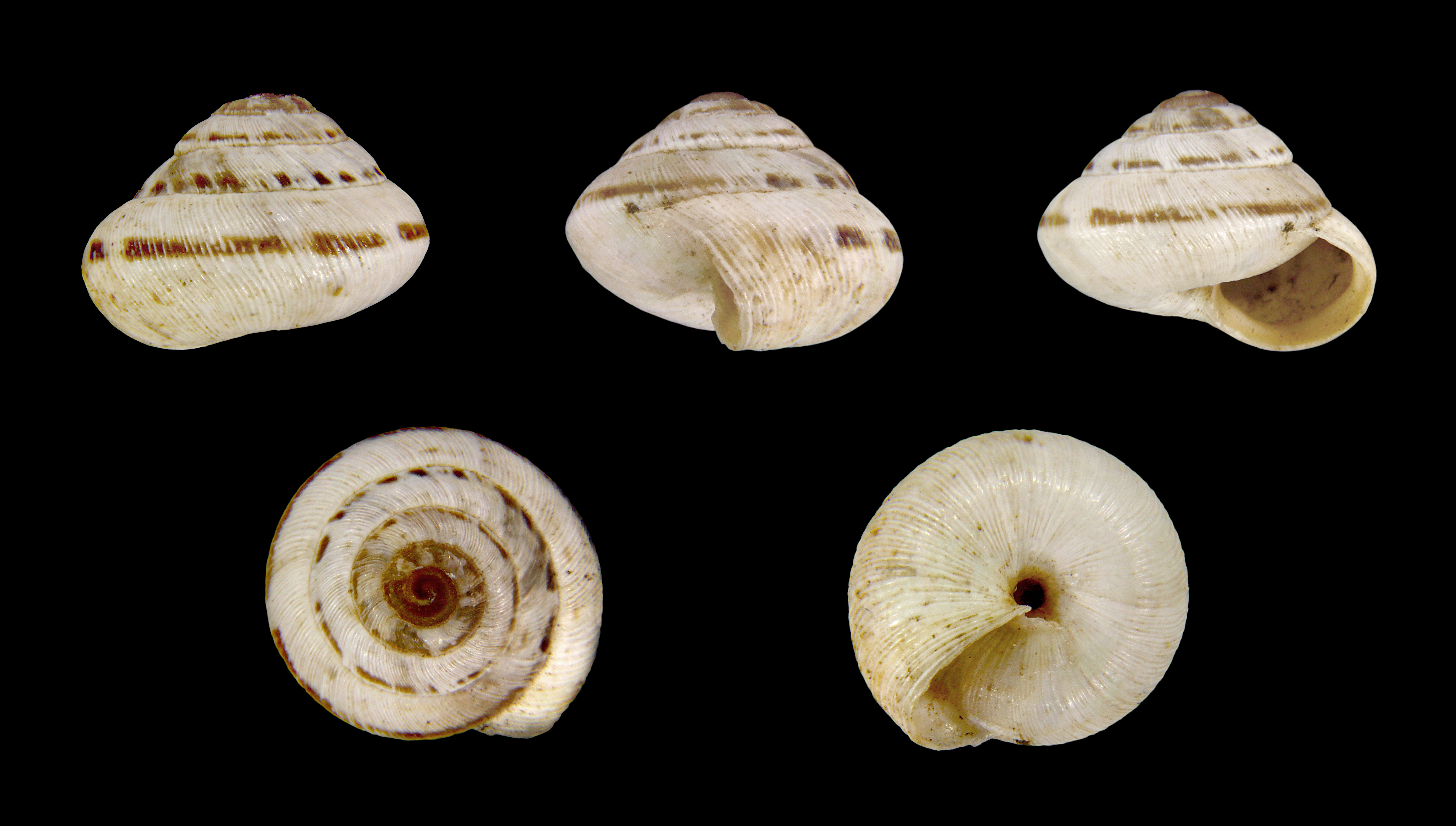 Diameter 0.6 cm; Originating from Mastichari, Kos, Greece; Shell of own collection, therefore not geocoded.